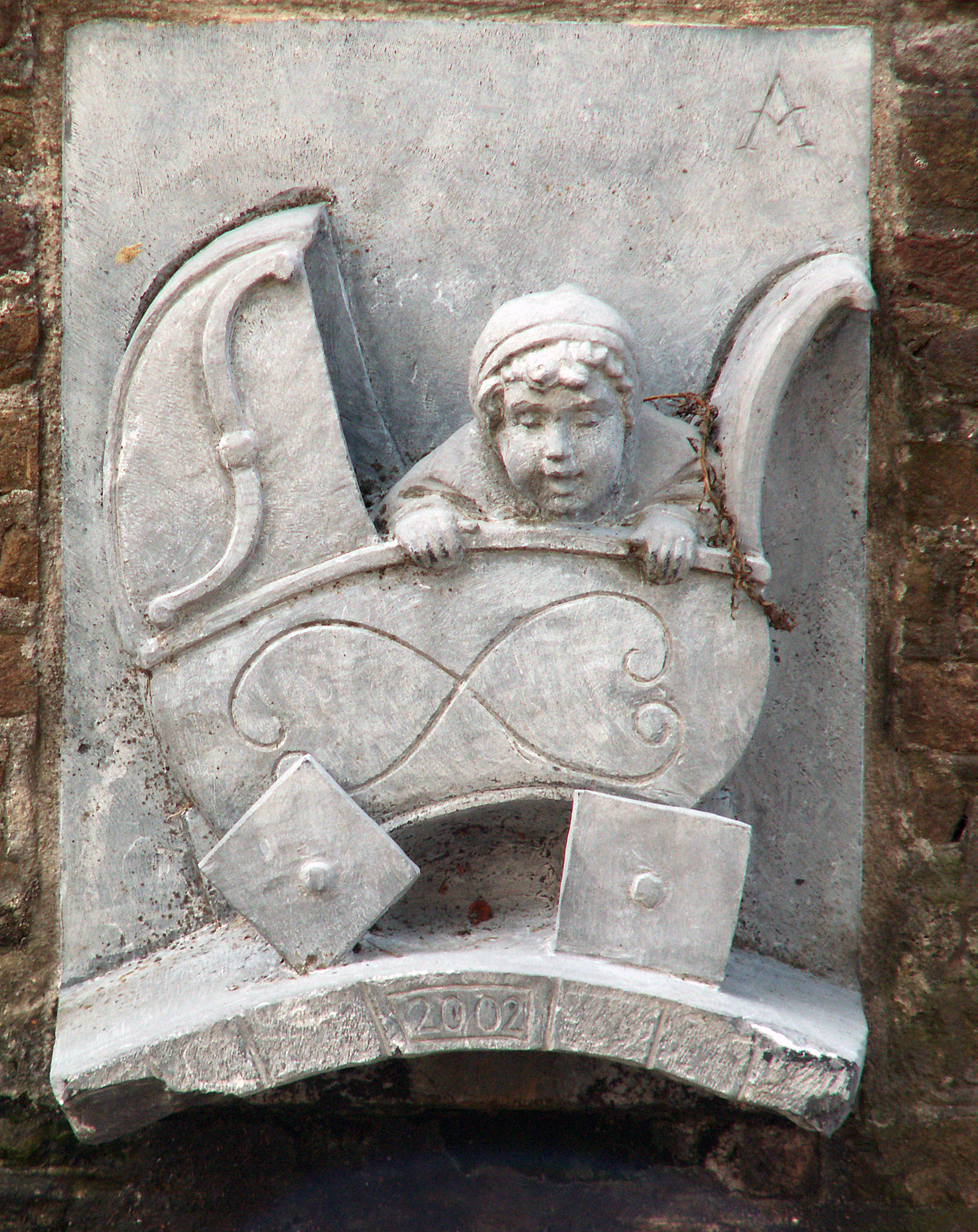 waterspout Mondrian by Dutch sculptor Ton Mooy in Amersfoort, the Netherlands. Baby Mondrian looking surprised at the square wheels of his pram. Placed near Mondrian's birth house in Amersfoort in canal wall. Namur bluestone